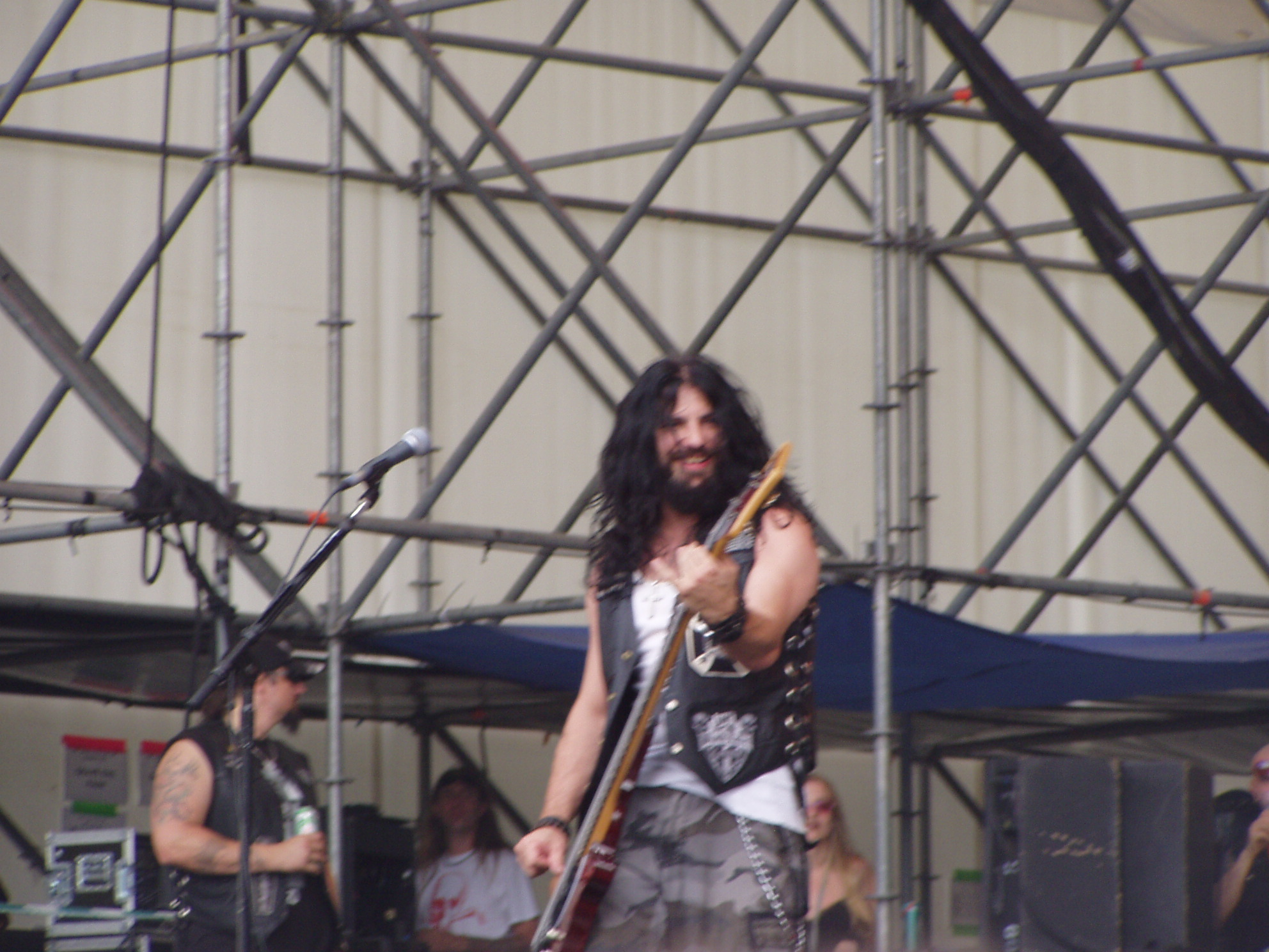 I Black Label Society al Gods of Metal